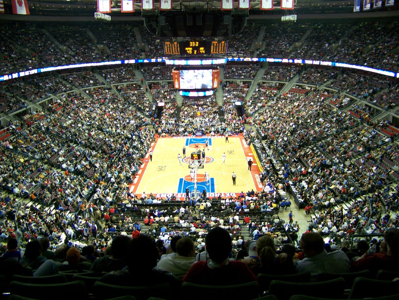 Utah Jazz @ Detroit Pistons, Palace of Auburn Hills, Auburn Hills, MI